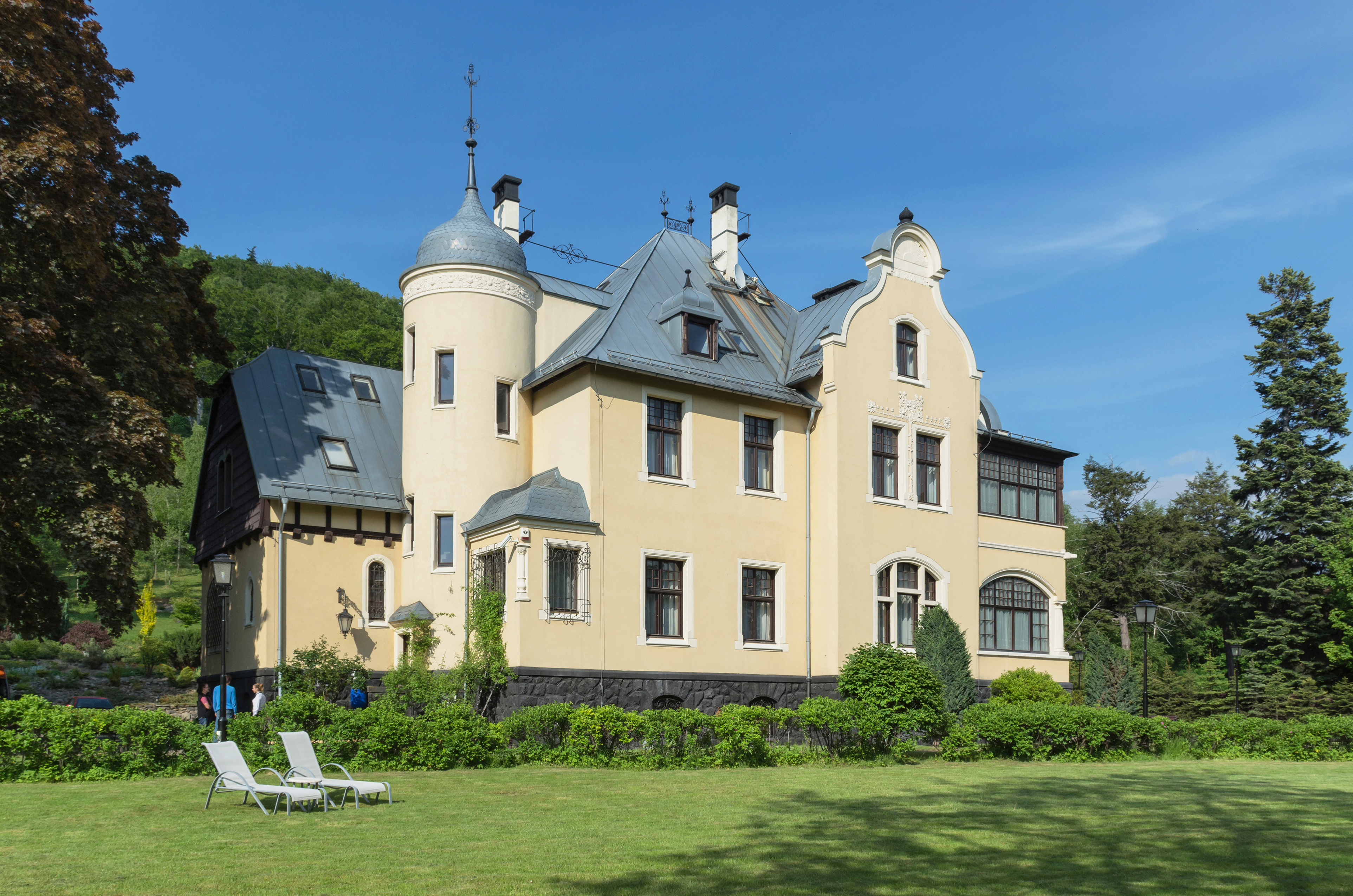 Villa Elise in Stronie Śląskie